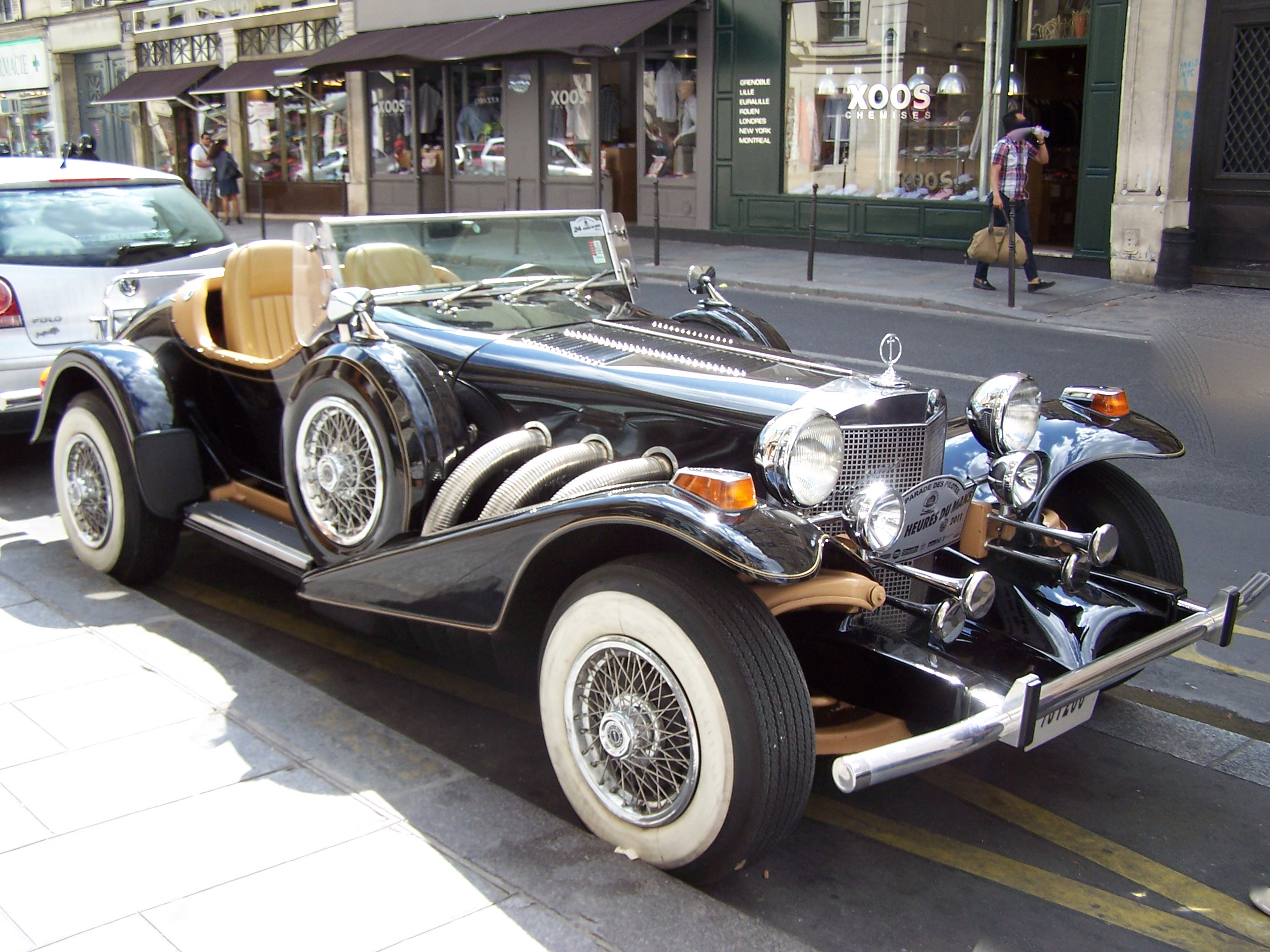 An Excalibur Series III Roadster SS in rue de Turenne, Paris, France. The Series III arrived in 1975 and was built until the end of 1979; it can be differentiated from a Series II by the enveloping clamshell fenders and the seats with headrests. The later Series IV was considerably longer and heavier.